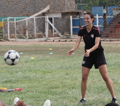 American soccer player, Kate Markgraf, in Ethiopia in July 2012.